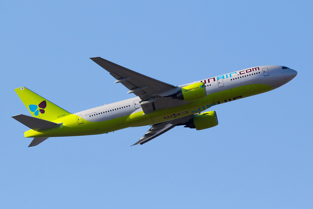 Jin Air Boeing 777-200ER taking off from Seoul Incheon